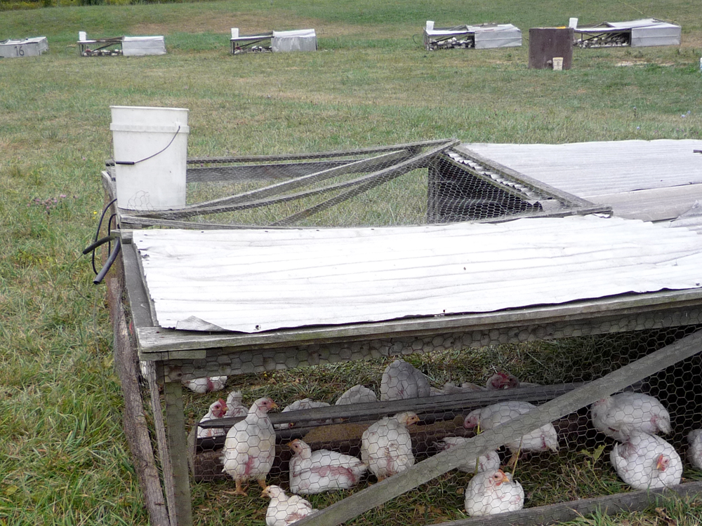 Broilers in chicken tractors at Polyface Farms in Virginia.